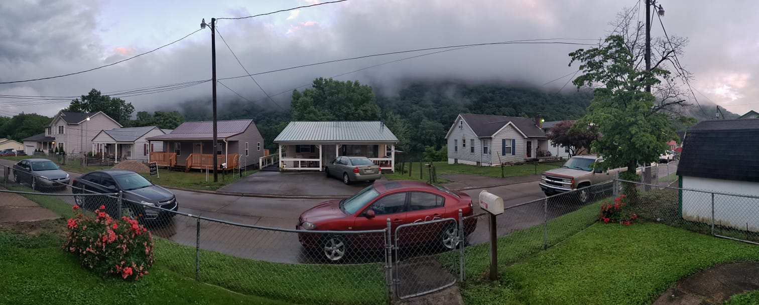 Panorama of Shrewsbury, West Virginia taken in 2019